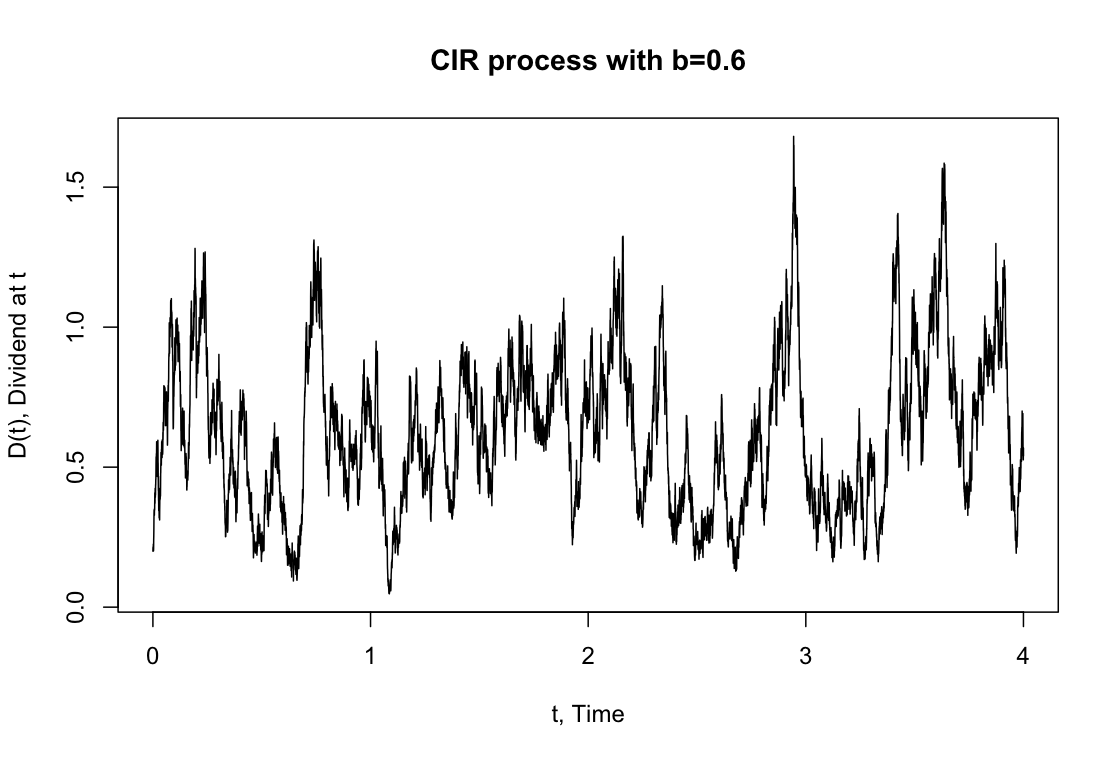 This is a simulation of CIR process.